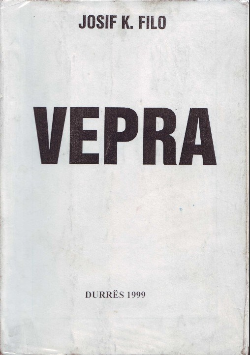 The book for Josif Filo